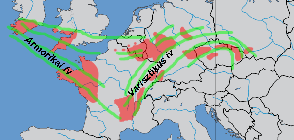 Variscan orogeny